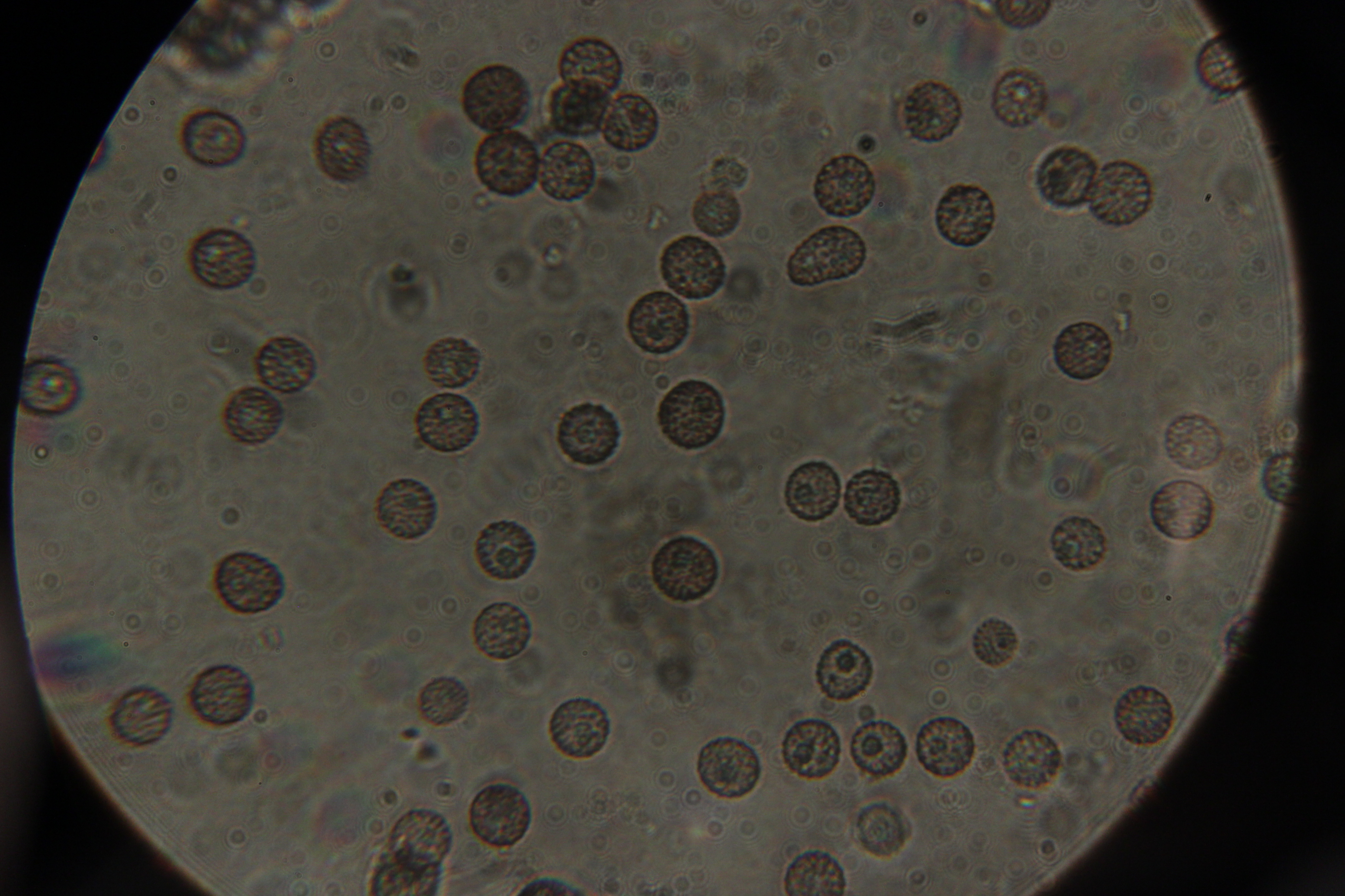 Microbotryum saponariae on Common Soapwort - Saponaria officinalis